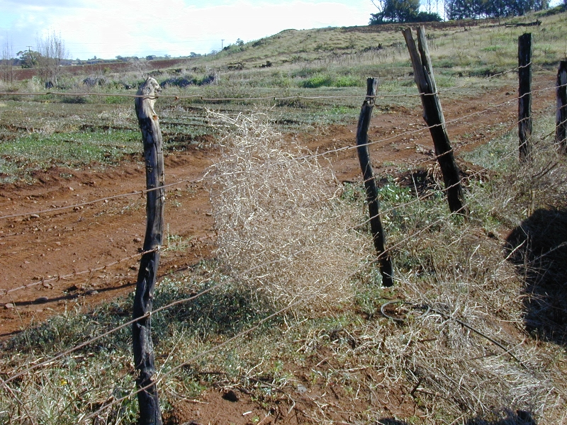 Salsola tragus (in fence). Location: Maui, Omaopio